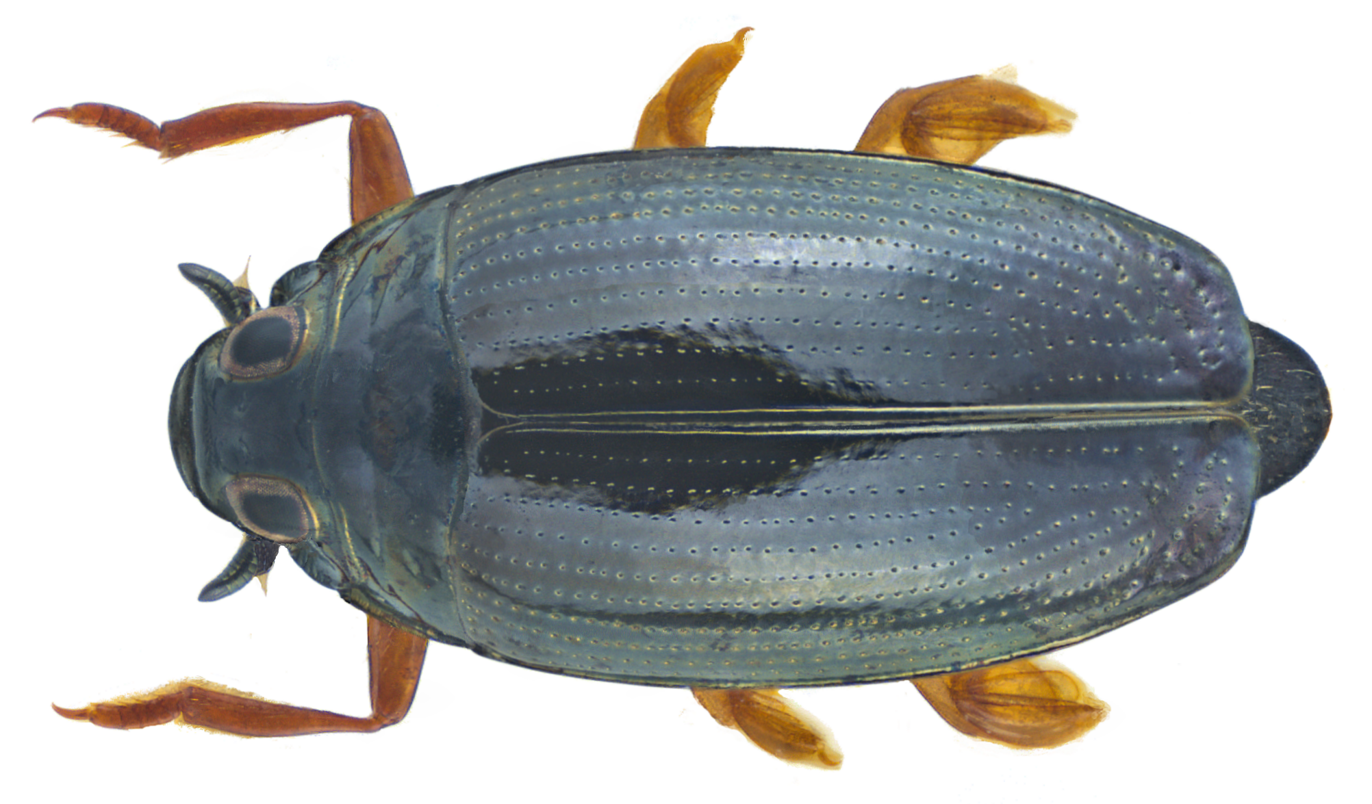 Family: Gyrinidae Size: 6,6 mm (5 to 7 mm) Origin: Europe, North Africa, South West Asia Location: Germany, Bavaria, Upper Franconia, Kulmbach / Leuchau leg.det. U.Schmidt, 14.V.1975 Photo: U.Schmidt 2015